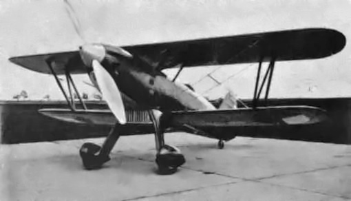 Czechoslovak Avia B-534 fighter aircraft, first prototype.